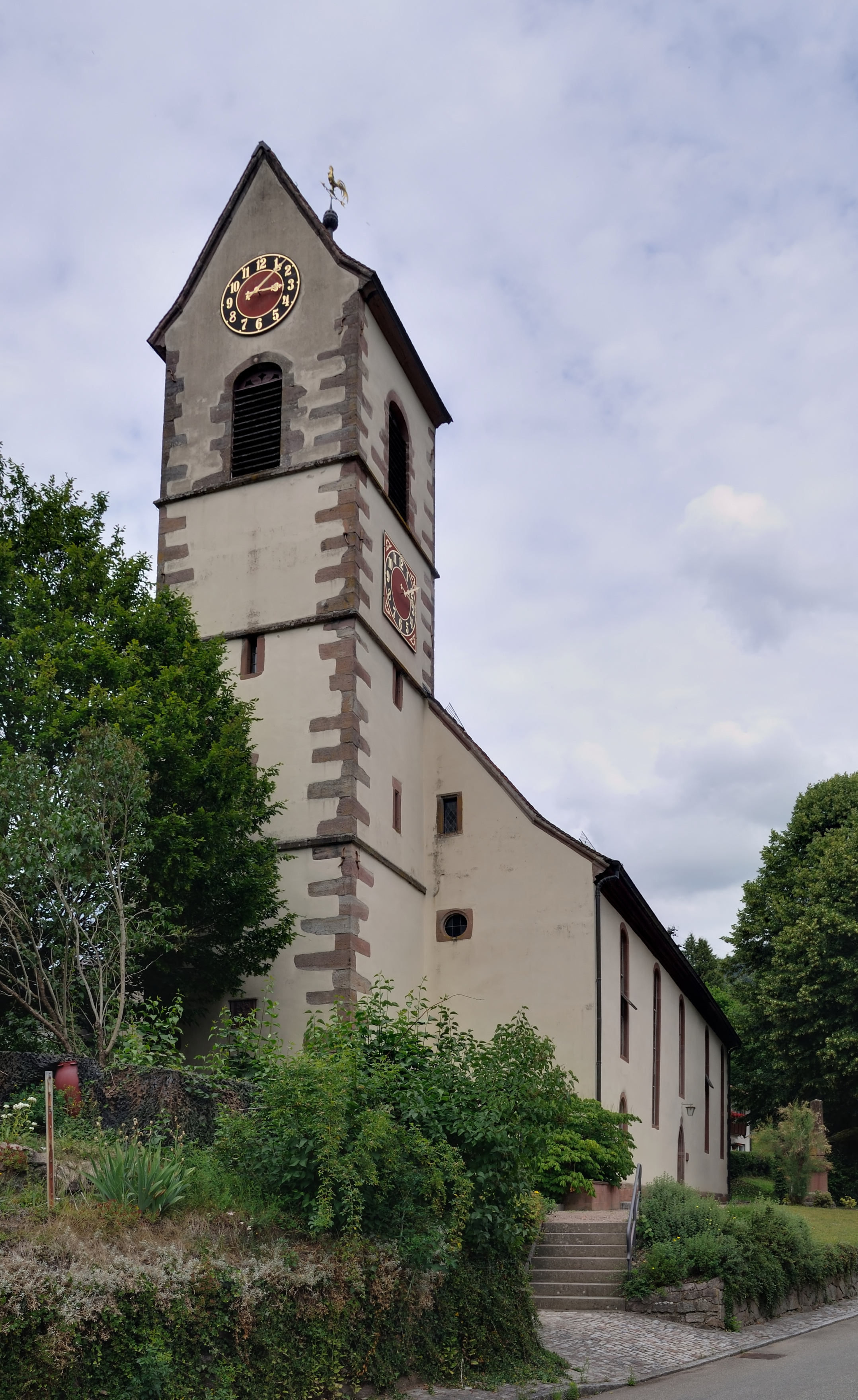 Tegernau: Protestant Church